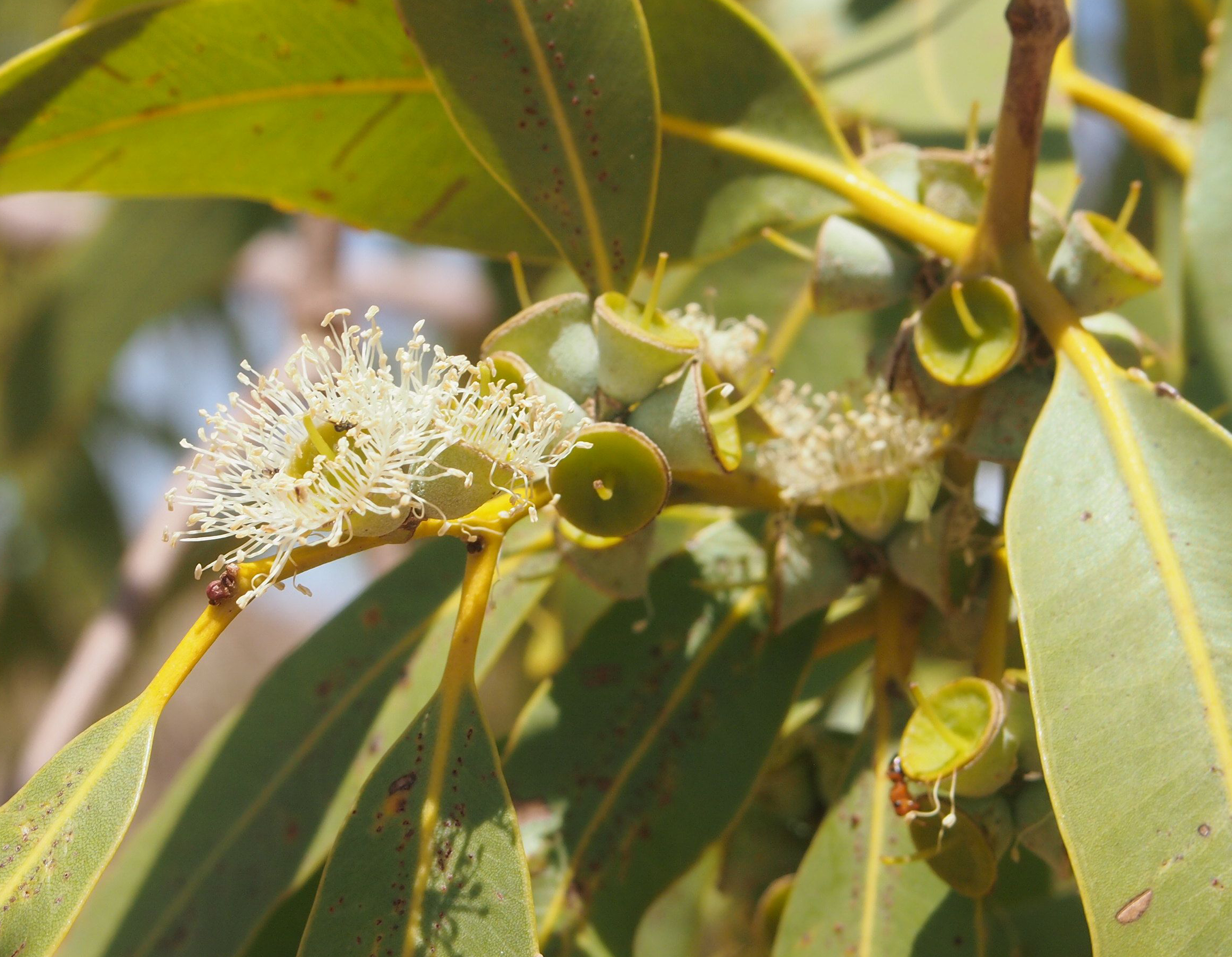 Corymbia aparrerinja flowers